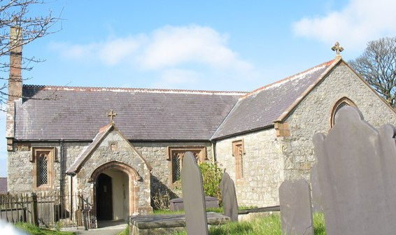 Eglwys y Santes Fair/St Mary's Church, Pentraeth